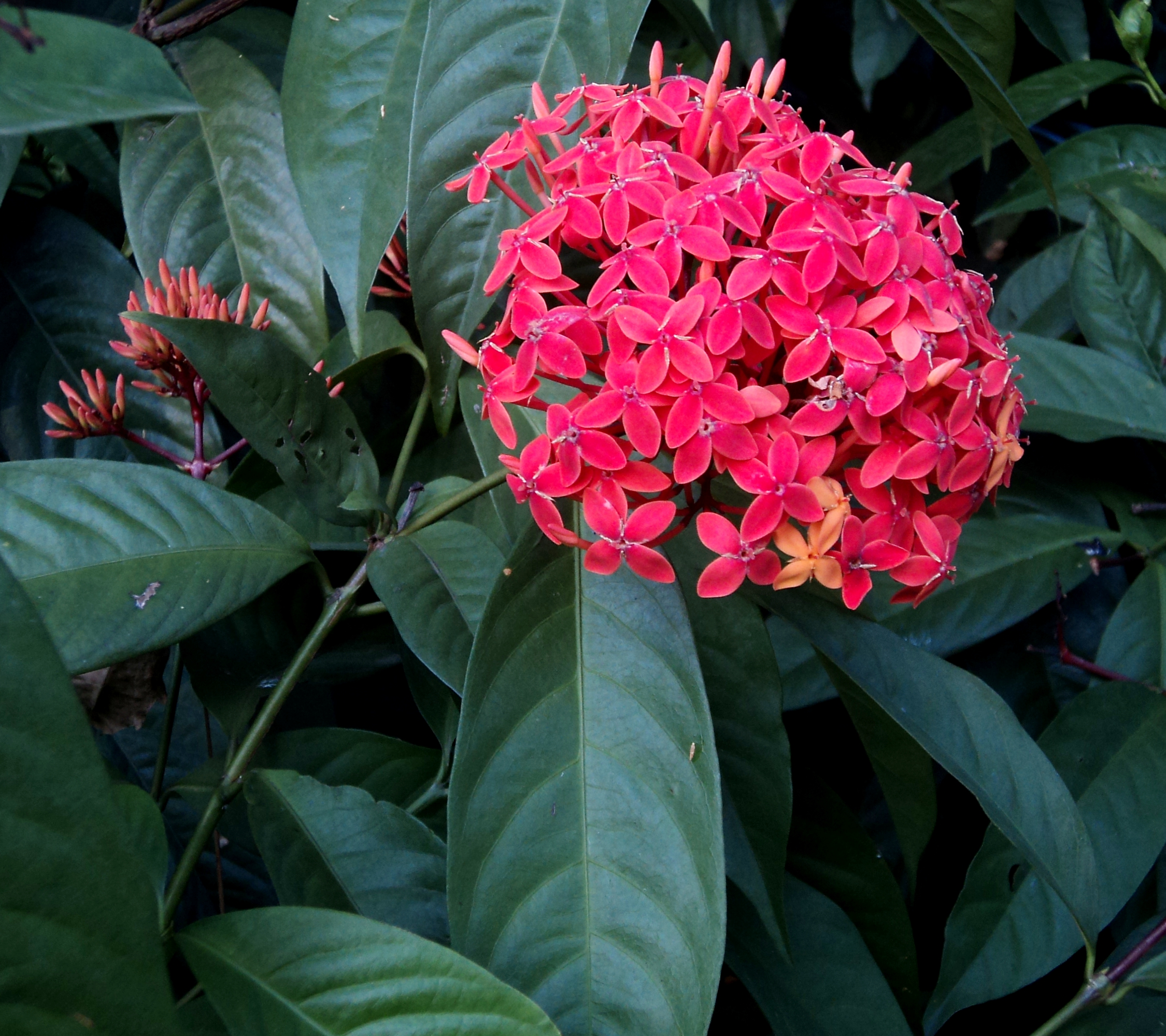 Flowers of Ixora coccinea, Tamil Nadu